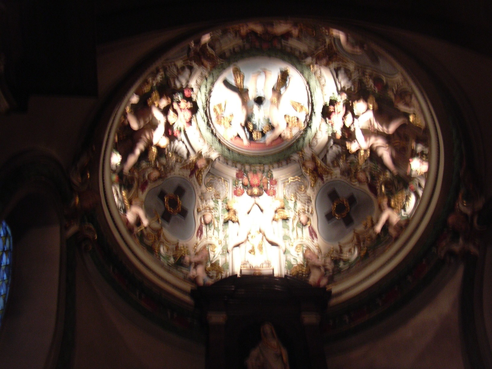 Kamp-Bornhofen, Monastery Church; dome of Virgin Mary Chapel